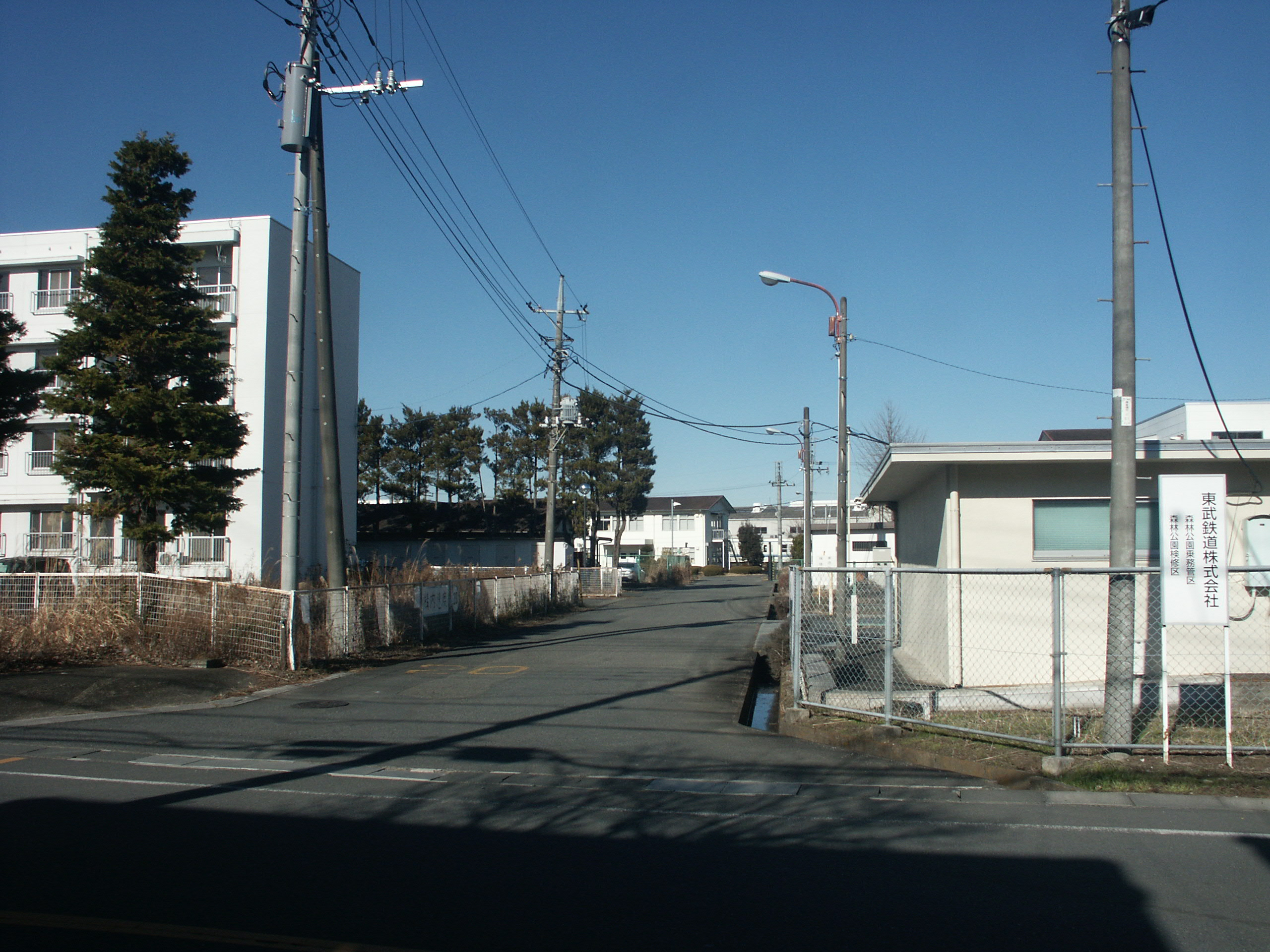 Tobu Railway Shinrinkoen Depot